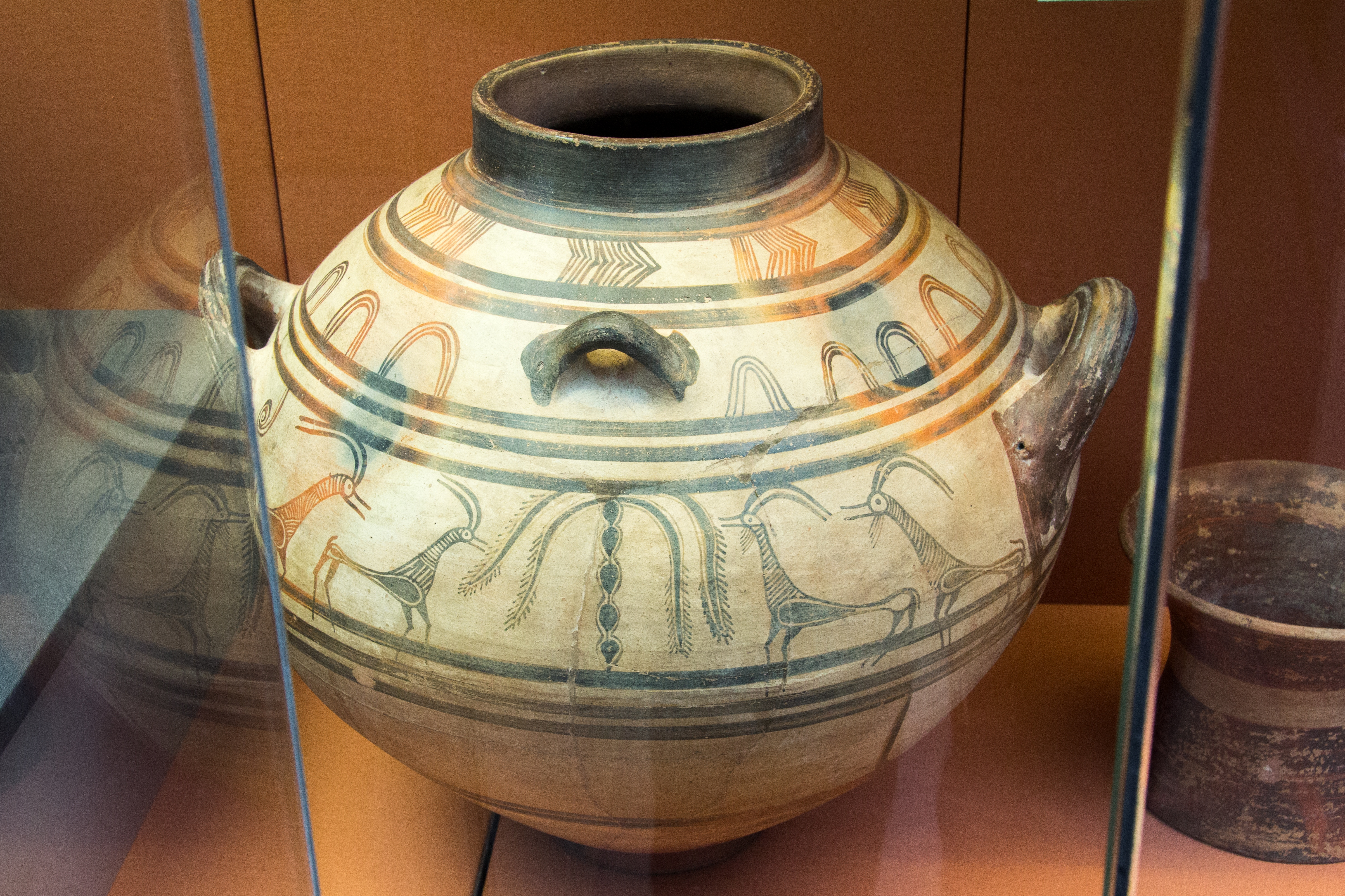 Myenaean poterry storage jar decorated with deer and wild goats, 1200-1100 BC (LH IIIc). Found on Kalymnos. British Museum, GR 1886.12-12.1. BM Cat Vases A1022.